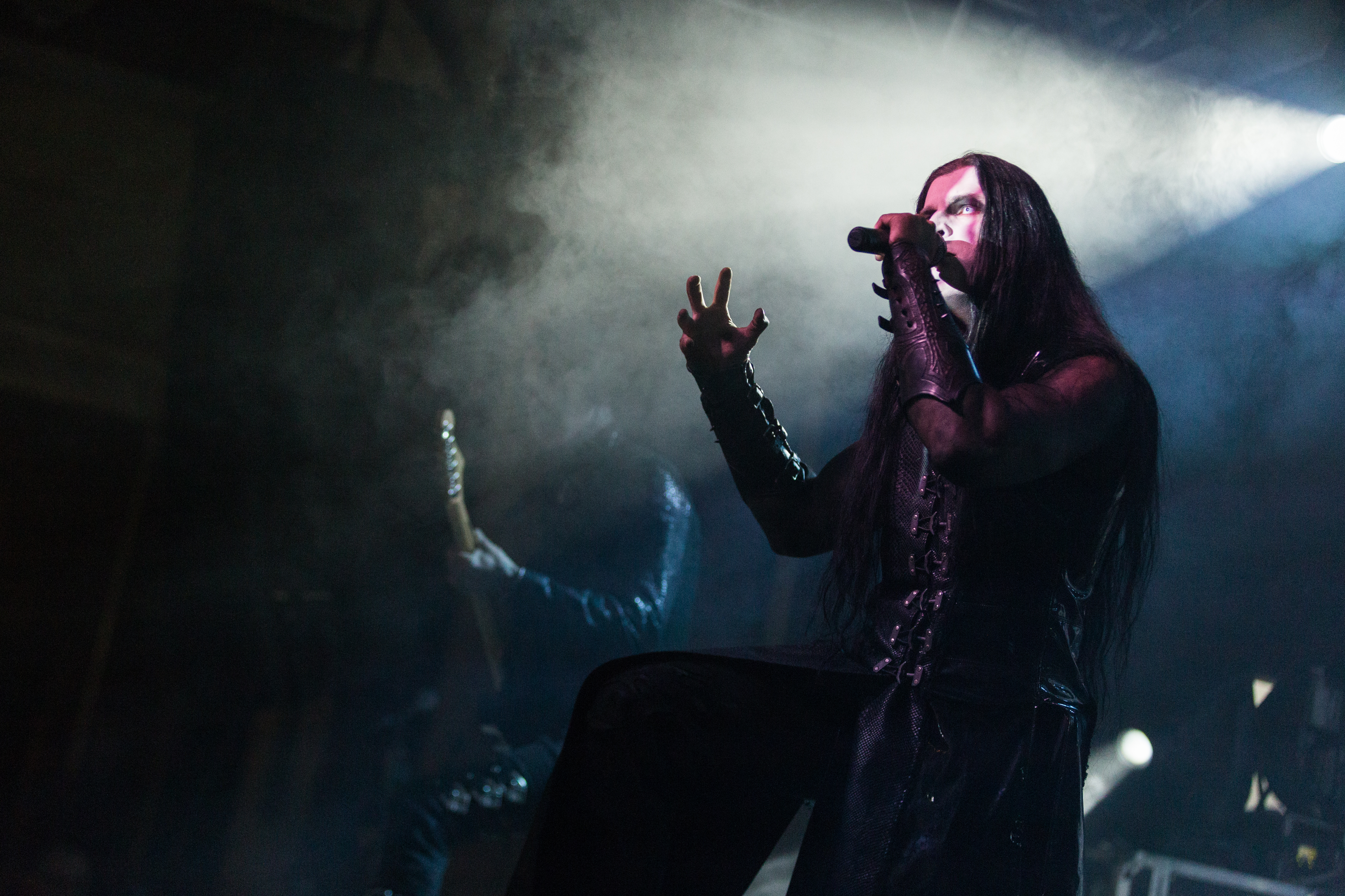 The German dark metal band Nachtblut at the Wave-Gotik-Treffen 2017 in Leipzig/Germany (Venue Felsenkeller).